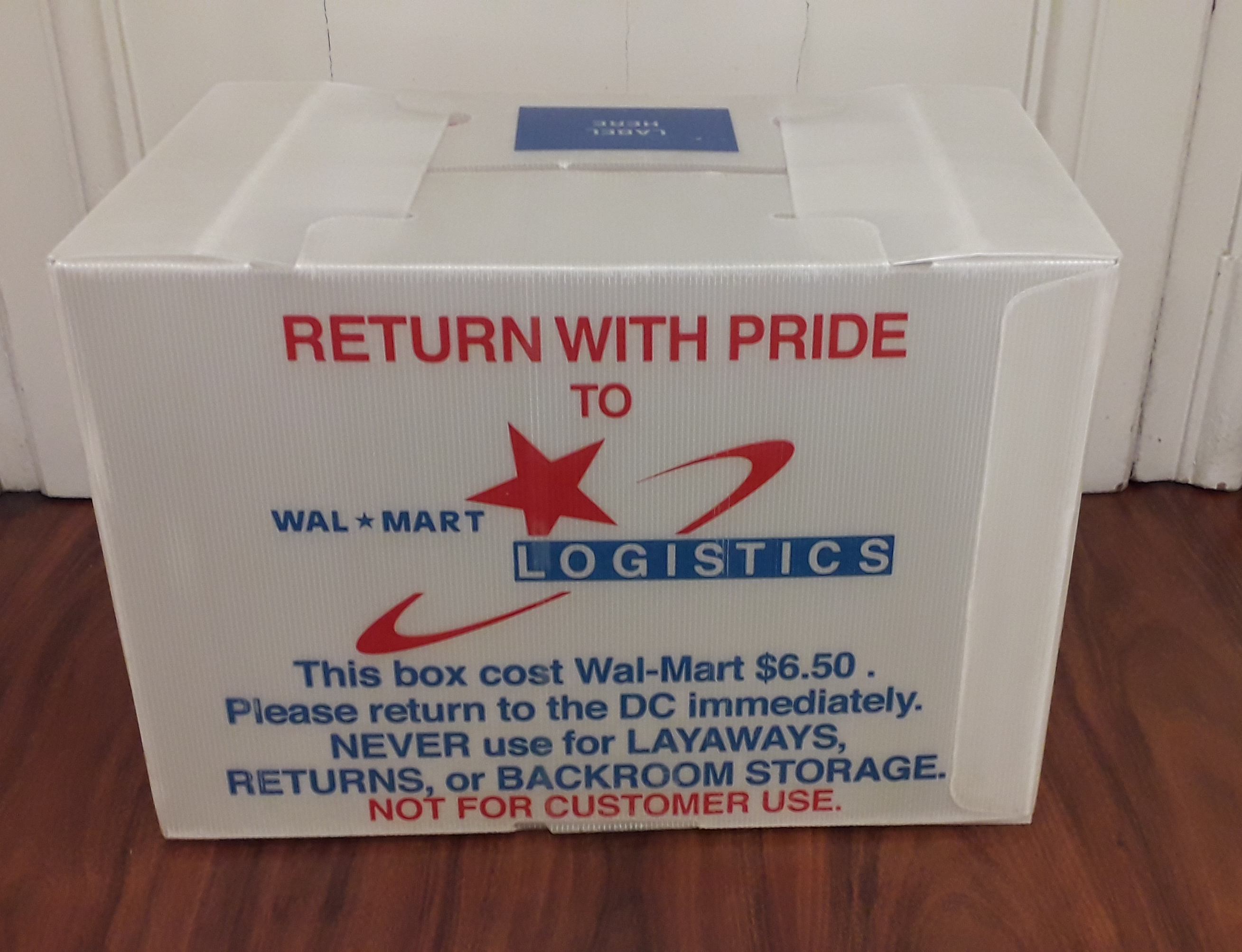 Box of Walmart made with cartonplast. Made by Pius XII Craven